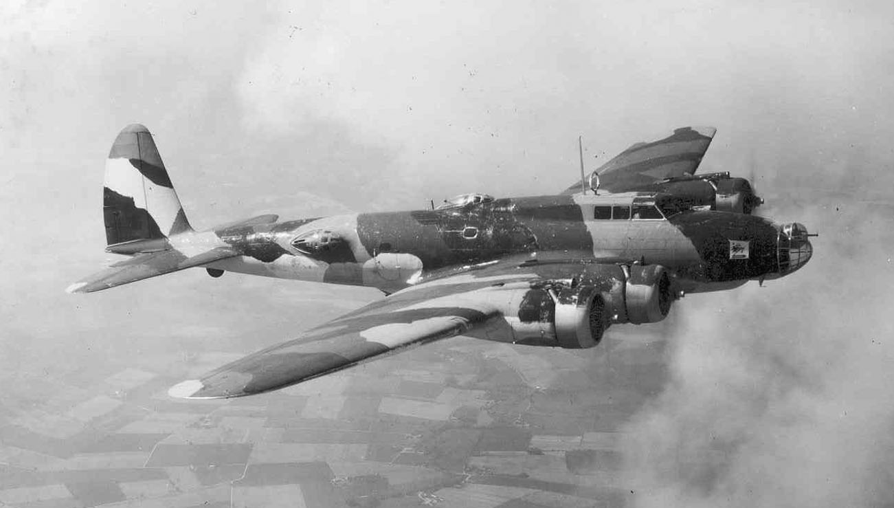 Boeing Y1B-17 with camouflaged paint scheme, assigned to the 20th Bomb Squadron, 2nd Bomb Group, based at Langley Field, Va.